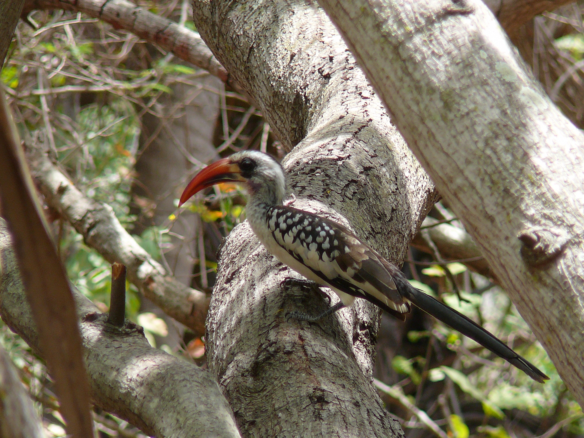 A Western Red-billed Hornbill in Bijilo Forest Park, Gambia